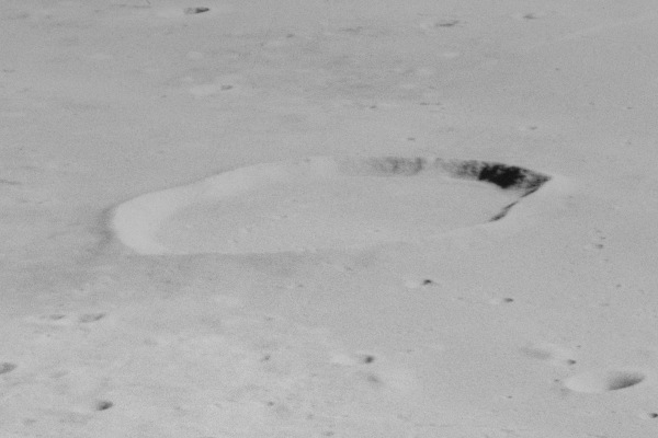 Oblique view of Gambart, facing north